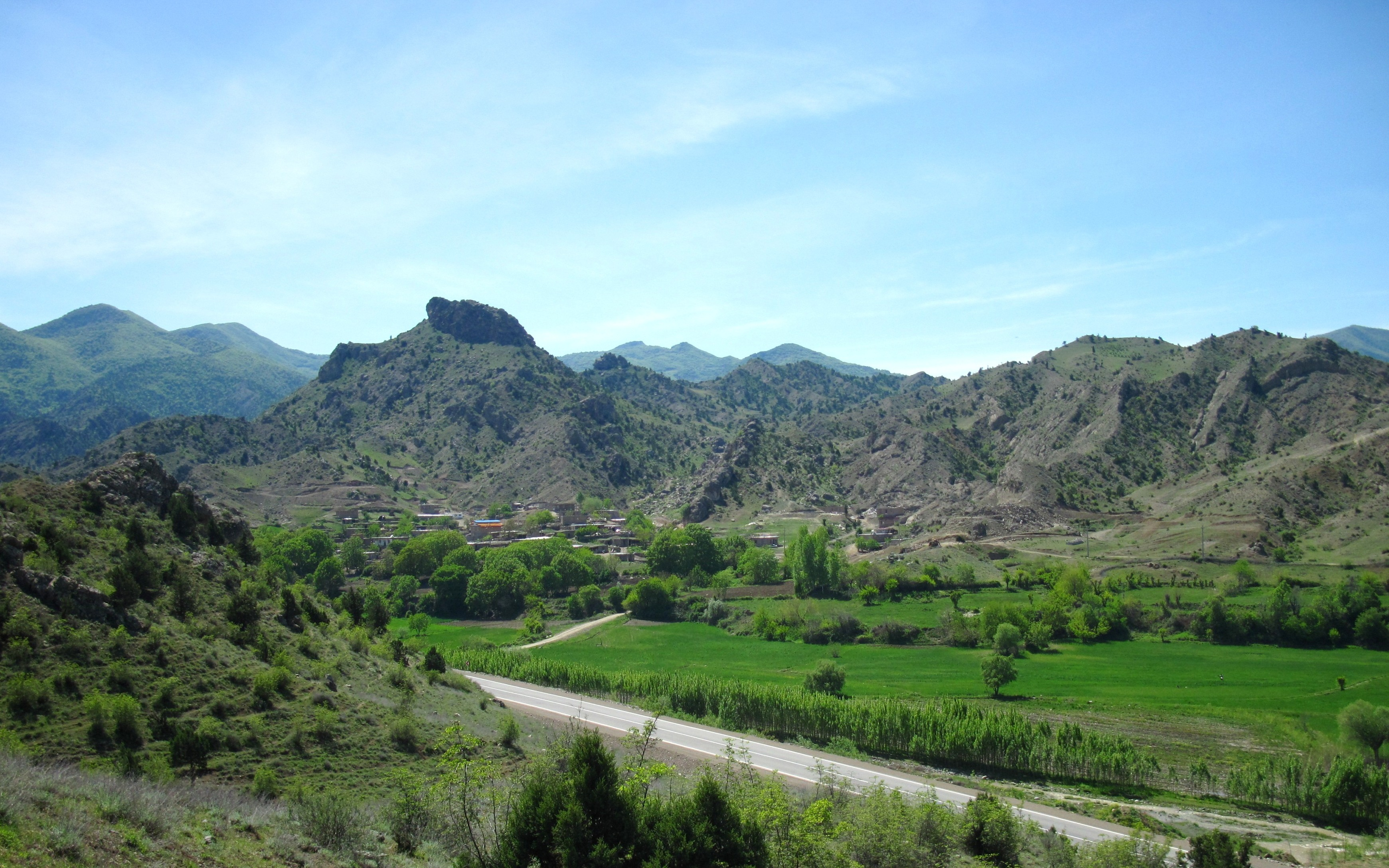 This photo was taken from Uri village in Arasbaran region and is intended for Uri wikipage.